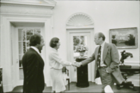 Businessman Richard DeVos, his wife Helen DeVos, and President Gerald Ford in the Oval Office